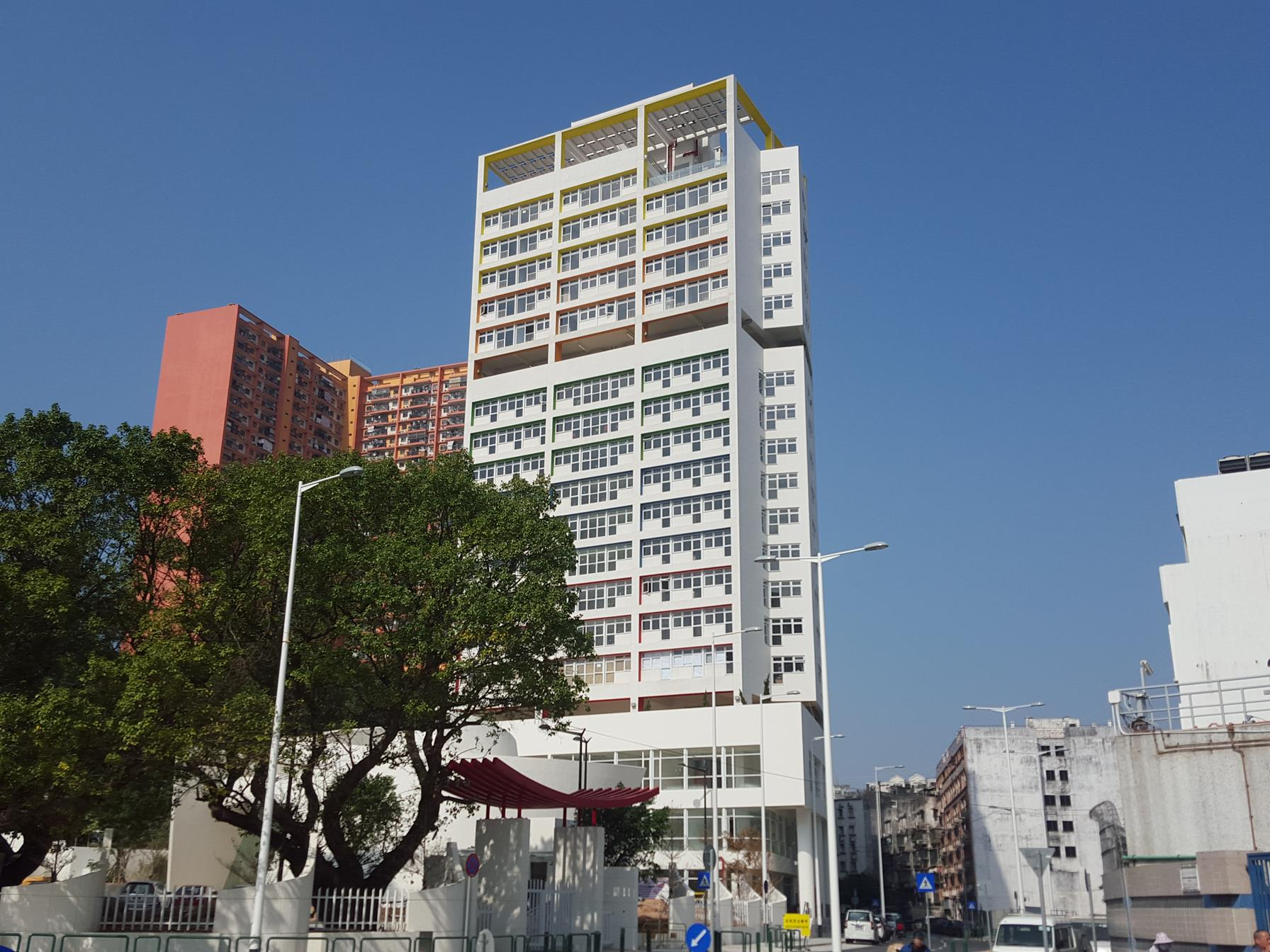 New Campus of University of Saint Joseph